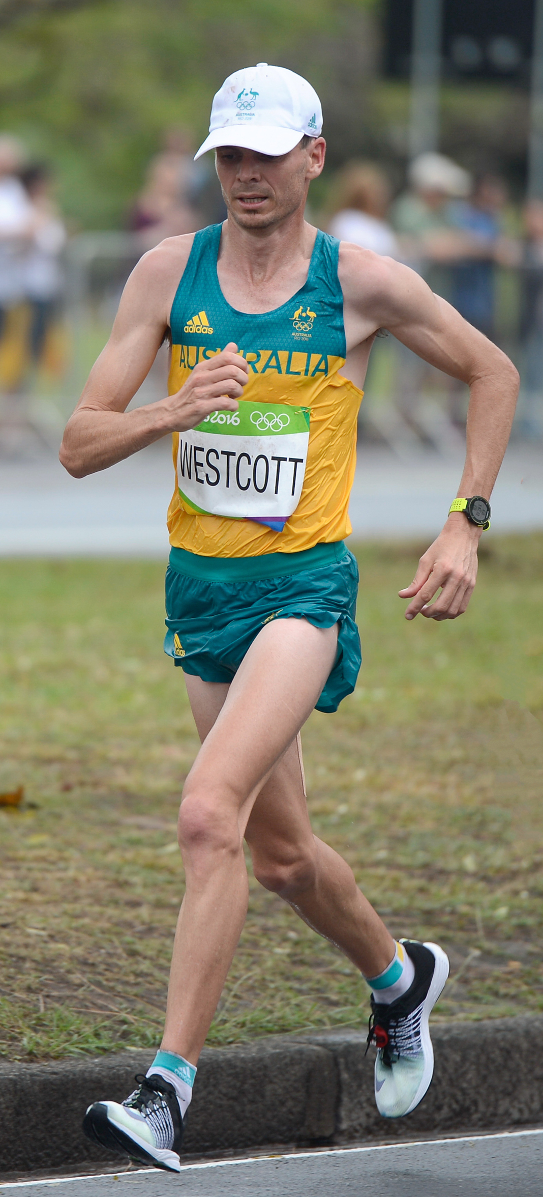 Rio de Janeiro - Sob chuva forte atletas da maratona masculina passam pelo aterro do Flamengo (Tânia Rêgo/Agência Brasil)